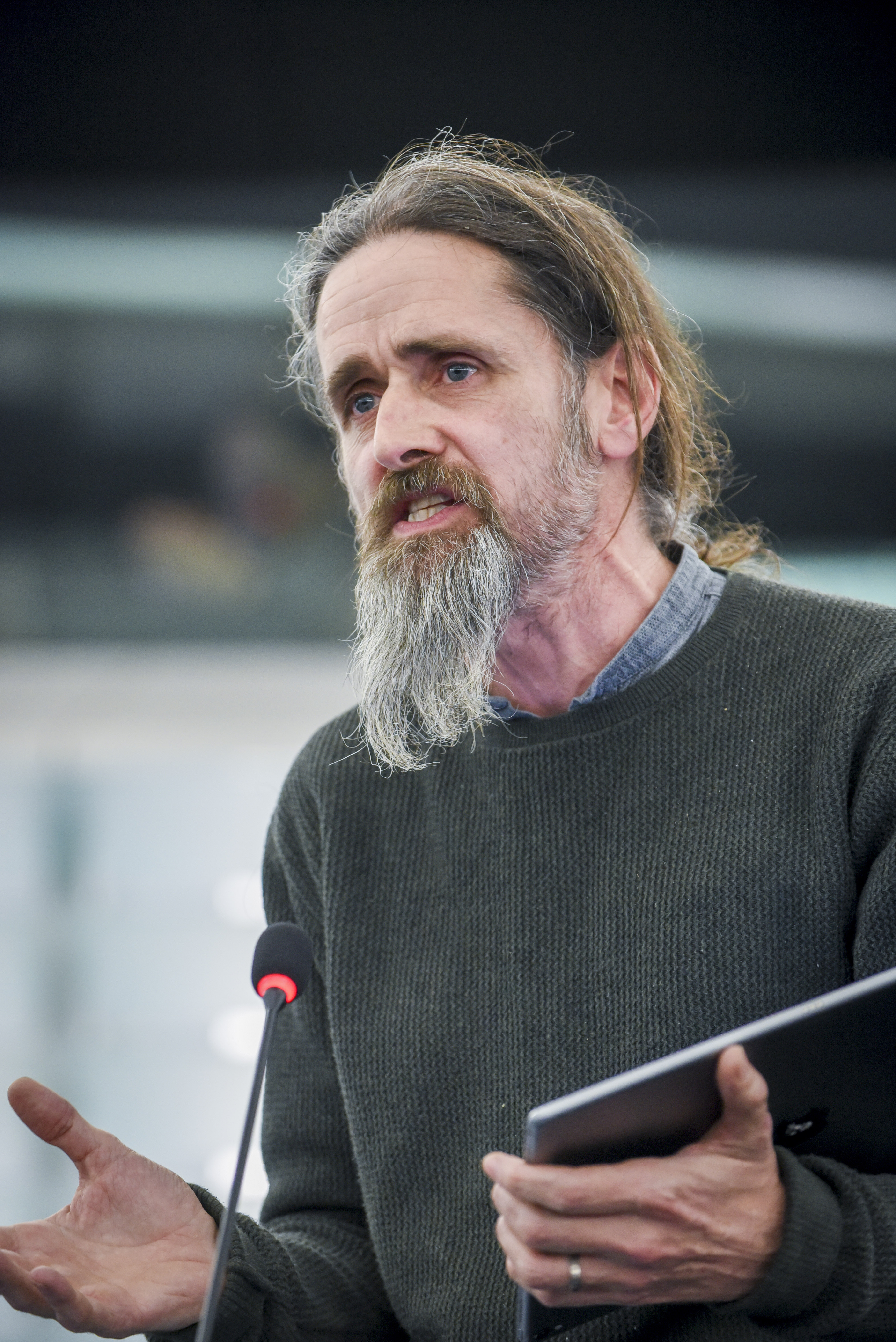 EP Plenary session - The reopening of the prosecution against the Prime Minister of the Czech Republic on the misuse of EU funds and potential conflicts of interest